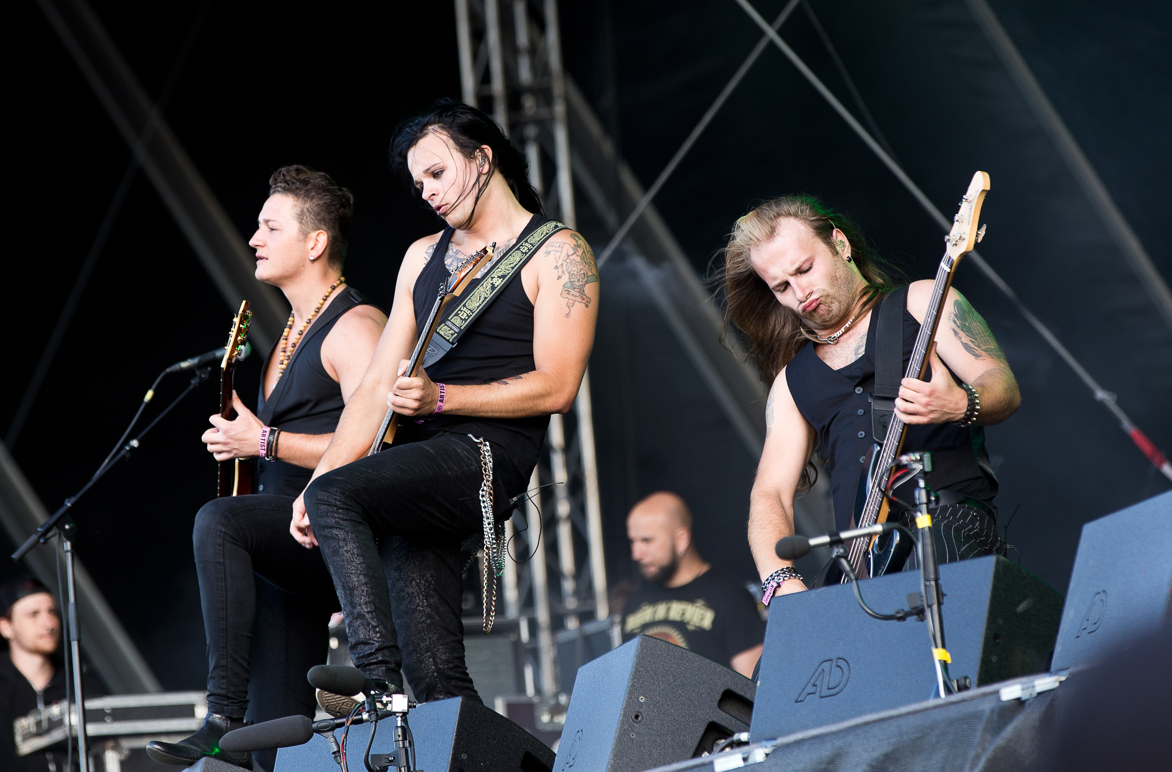 The German glam metal band Kissin’ Dynamite at the Rockharz Open Air 2016 in Ballenstedt/Germany.